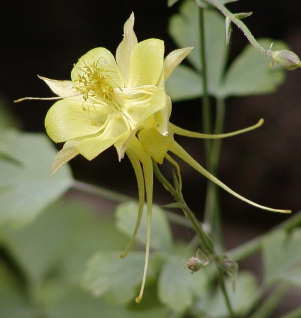 Photo of Aquilegia chrysantha at the Desert Demonstration Garden in Las Vegas, Nevada